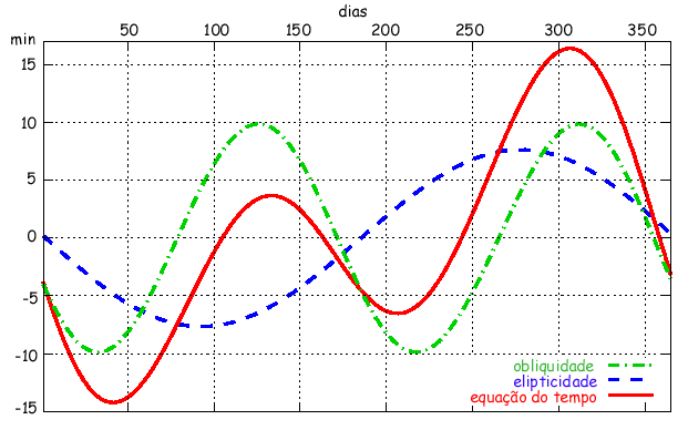 Equation of Time